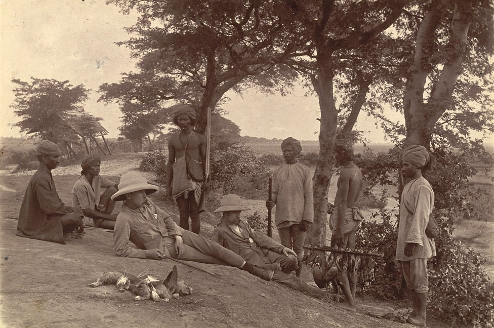 Rest after hunting in Mandalay, Burma.